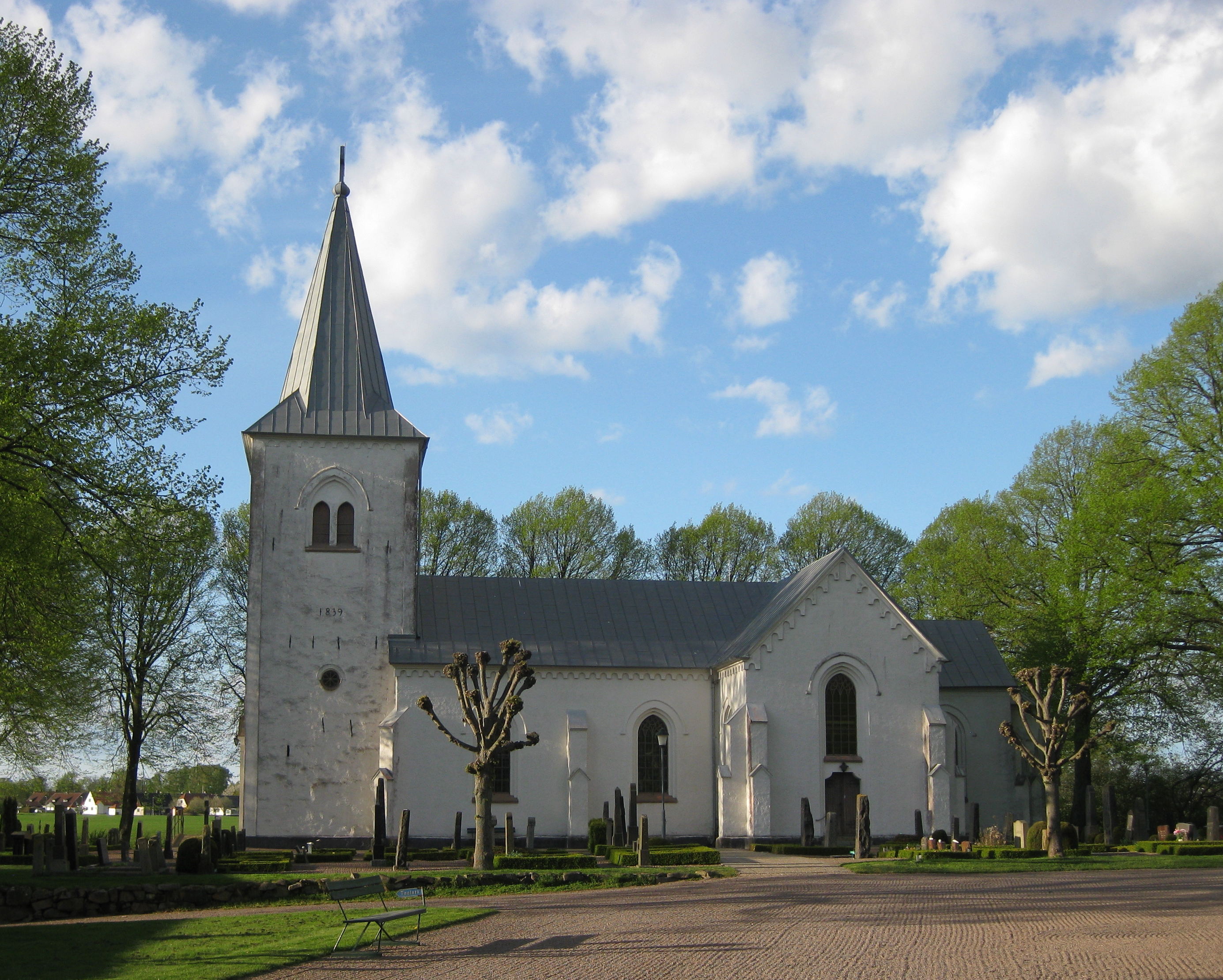 Västra Broby church in Skåne, Sweden